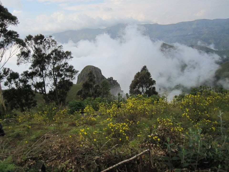 The Magua Peak as seen from Bekwop